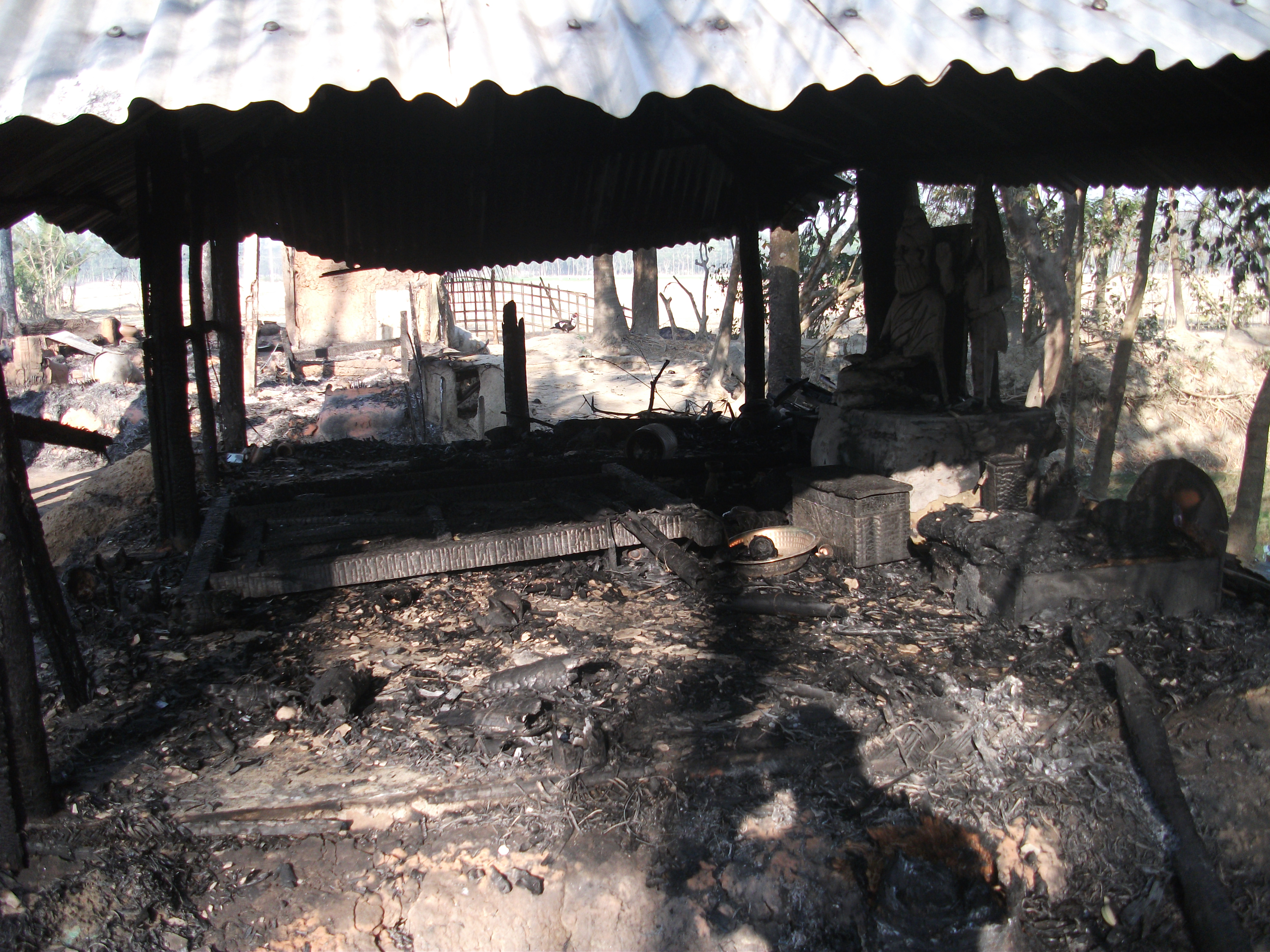 The photograph shows a Hindu temple in Banshkhali Upazila in Chittagong District, Bangladesh destroyed and burnt on 28 February 2013.